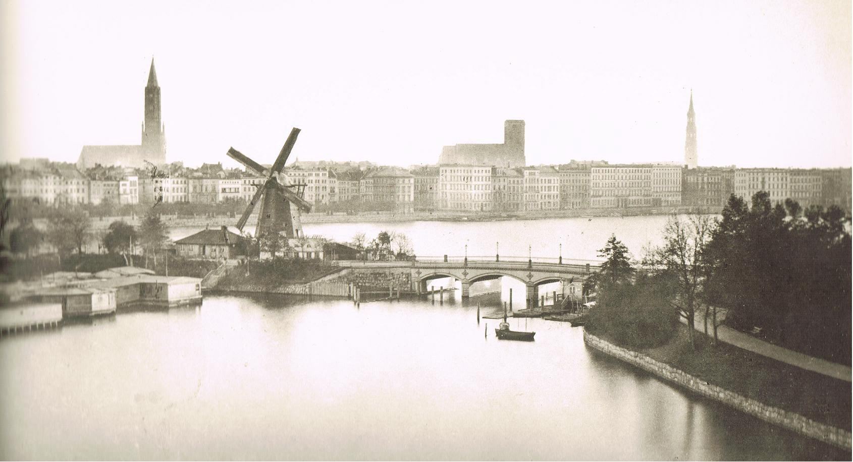 Hamburg's old "Lombardsbrücke" (Lombard's Bridge), from northwest. photographed by J.F. Lau, around 1860